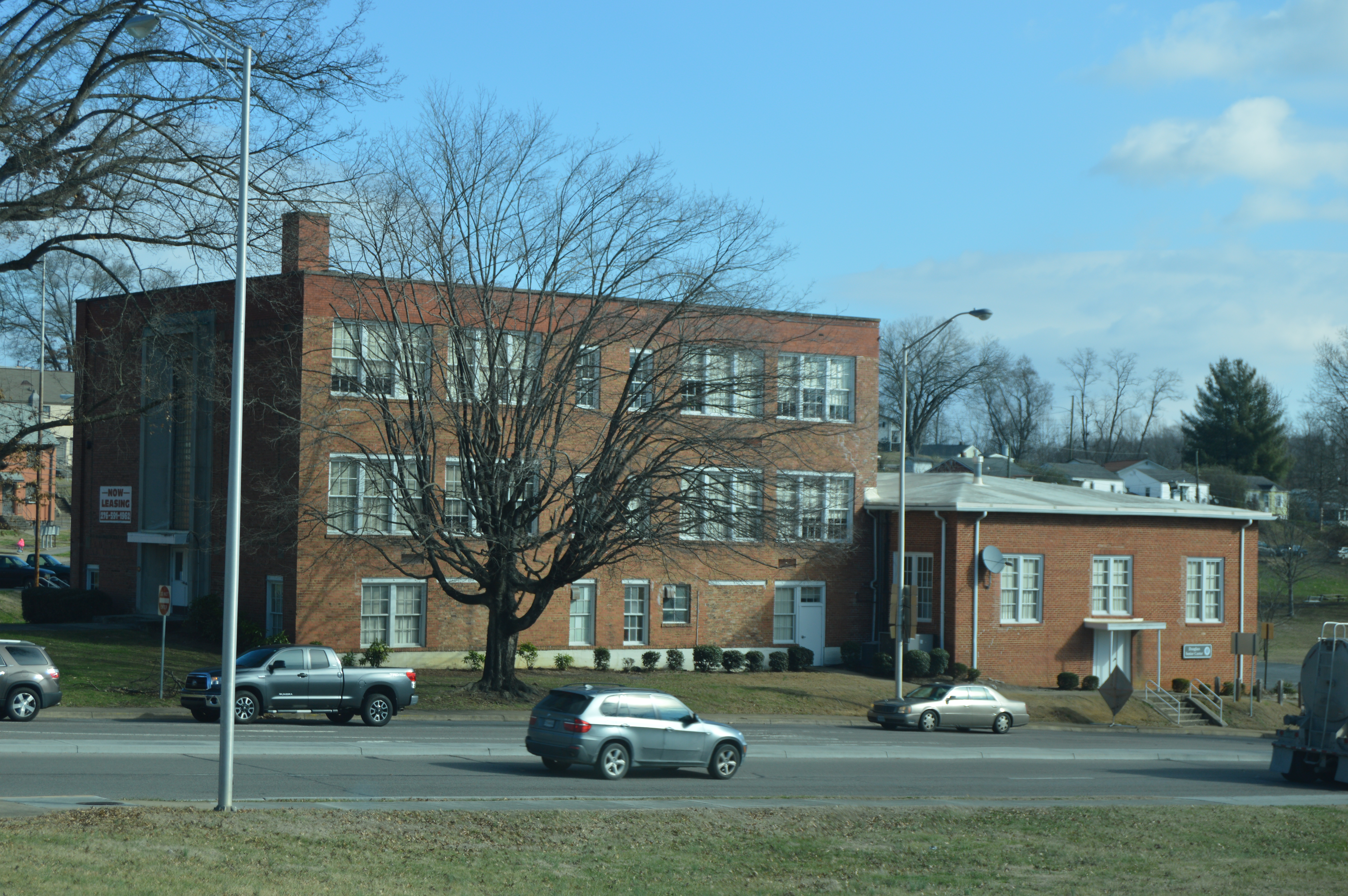 Southern and western sides of the former Douglass School, located along State Route 113 at 711 Oakview Avenue in Bristol, Virginia, United States. Built in 1921, it is listed on the National Register of Historic Places.